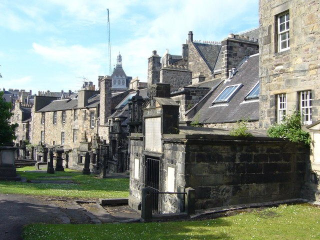 Charnel-house in Greyfriars Kirkyard Tombs for the dead back onto houses for the living. The odd-looking object behind the tower of the Central Library is a crane on a nearby building site on George IV Bridge.